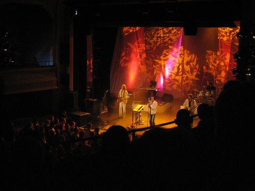 This image depicts German pop/rock/schlager group Münchener Freiheit live in concert at Alte Oper Erfurt in March 2006.